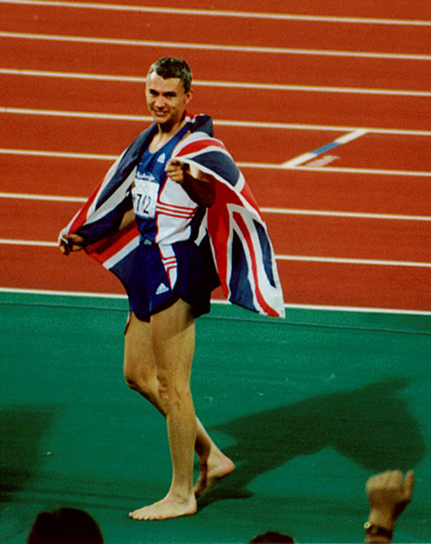 Jonathan Edwards olympics 2000 sydney